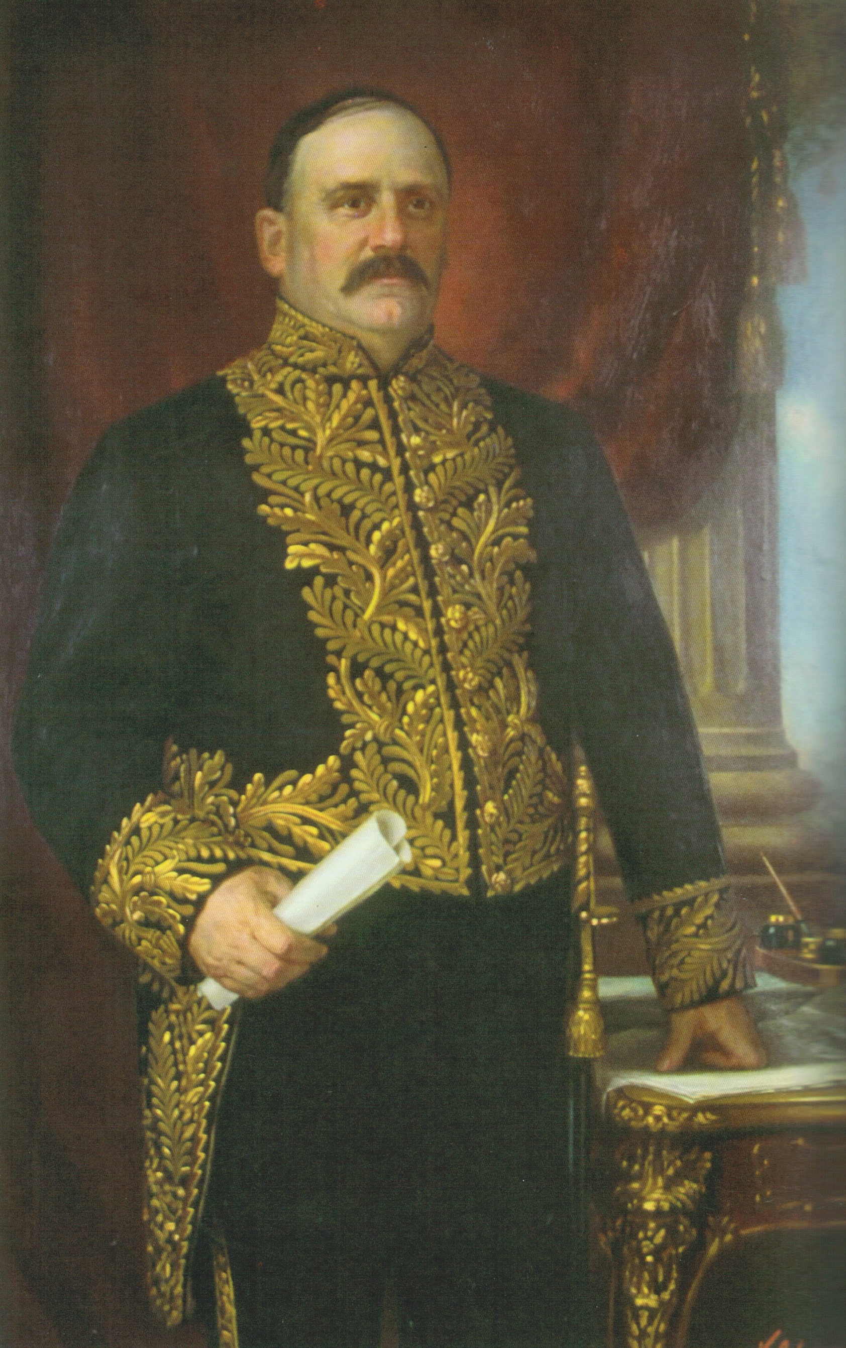 Image of George Bulyea, Lieutenant Governor of Alberta (1905-15